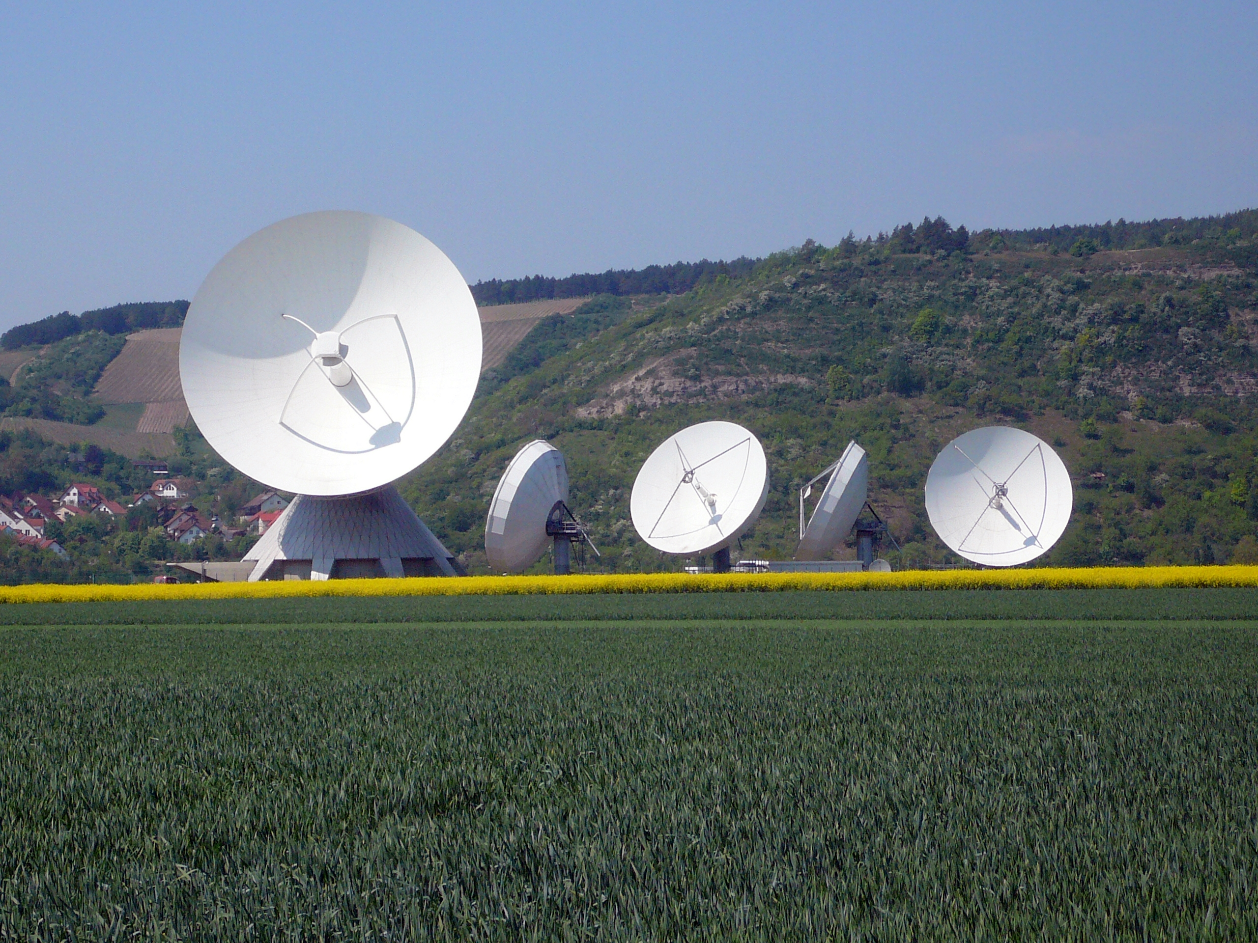 Satellite ground station Fuchsstadt, Germany, aerialfield two